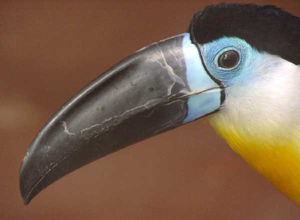 my own phote, by Daph Chloe Toucan Channel-billed Toucan, Ramphastos vitellinus